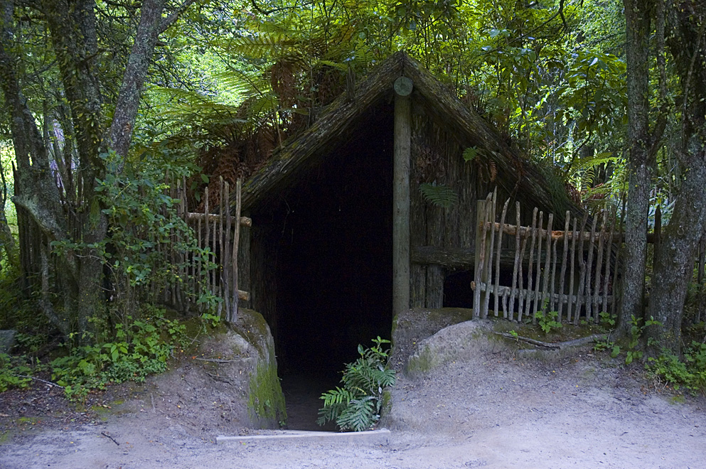 Dwelling at Te Wairoa, or "The Buried Village" (21 January 2005.) Photograph by James Shook, who retains copyright and releases the image under the license shown below.